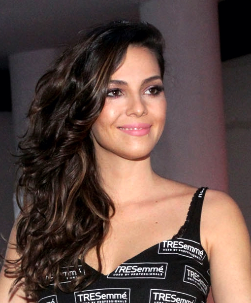 The Brazilian actress Tainá Muller